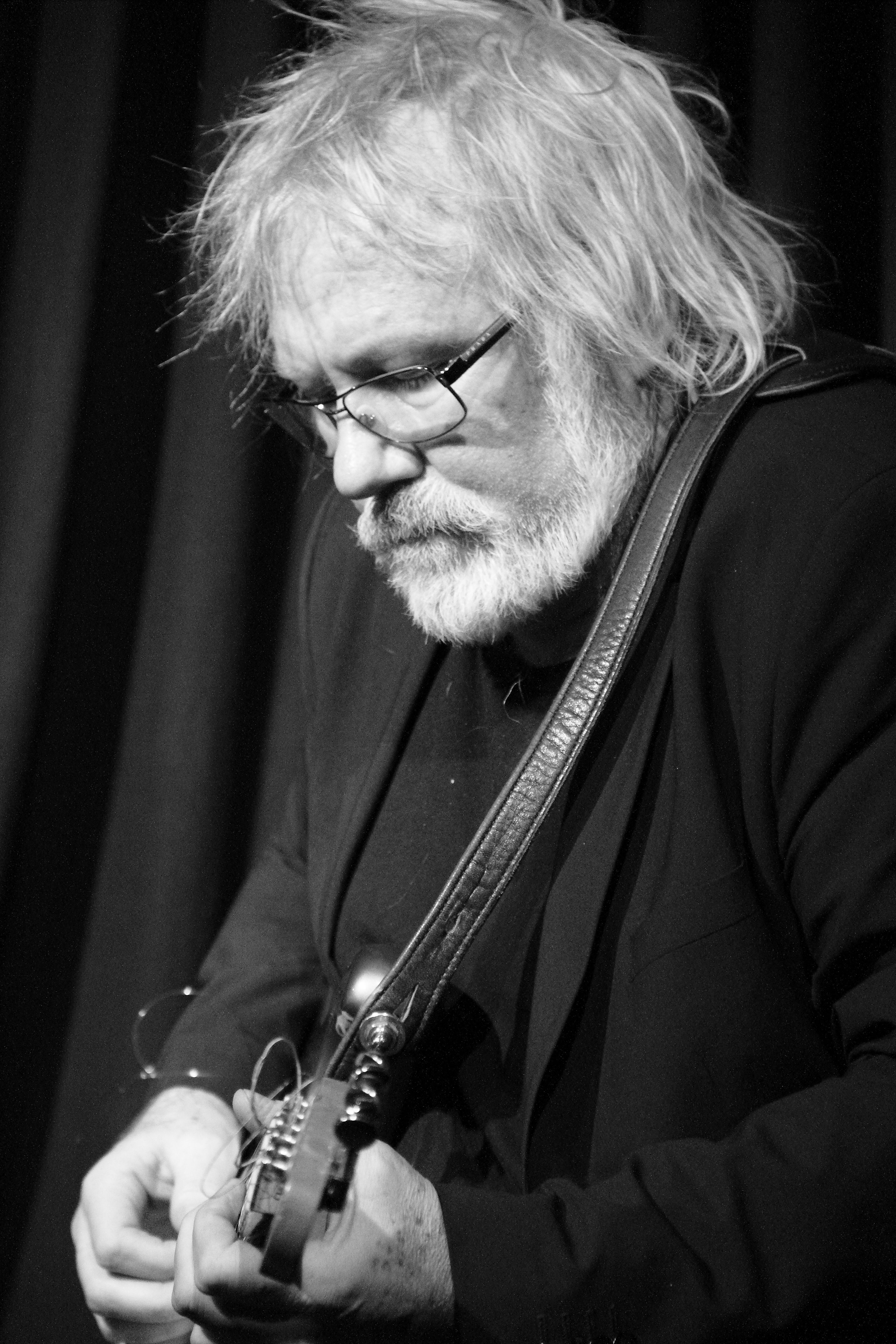 Band leader Mars Williams and his project are interpreting traditional Christmas songs and tunes of Albert Ayler. Here it´s a concert at Club W71, Weikersheim. Band members are Mars Williams (sax), Jaimie Branch (tr), Knox Chandler (g), Klaus Kugel (dr) & Mark Tokar (db).